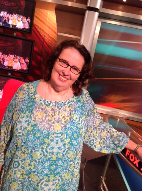 Phyllis Smith of "The Office" in 2014 in St. Louis, MO at KTVI FOX 2